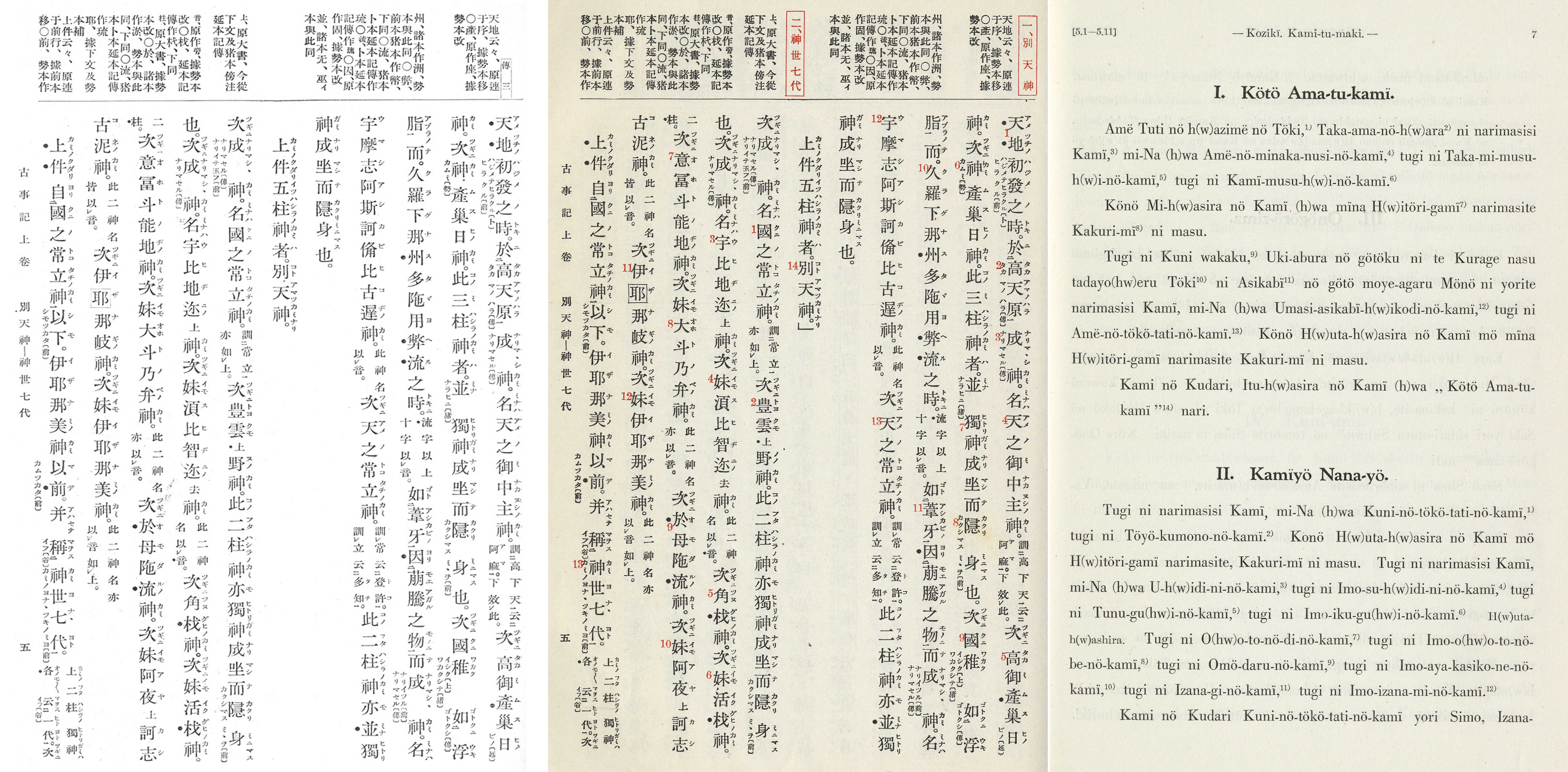 Print versions of the Japanese classic KOJIKI. Edition 1936 (left), Edition by Kinoshita Iwao 1940 (center), romanized Text by Kinoshita Iwao 1940